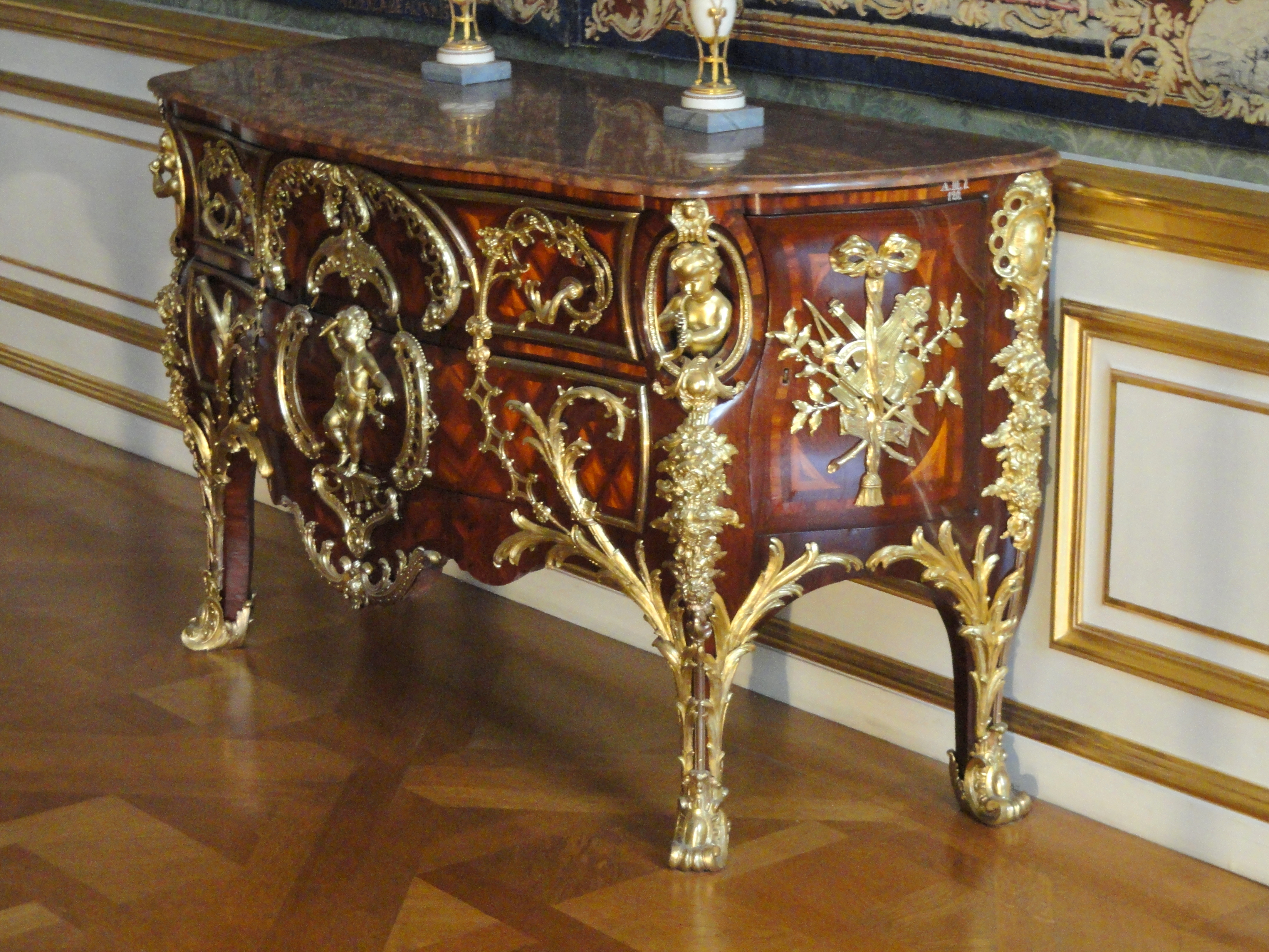 Commode by Charles Cressent, 1730-1735. Furniture exhibited in the Münchner Residenz, Munich, Germany.